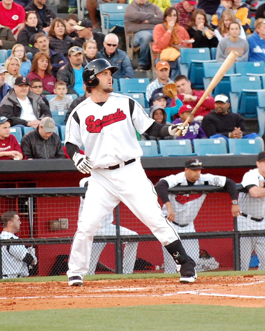 Sean Halton, a designated hitter for the minor league Nashville Sounds, prepares to bat in a game at Herschel Greer Stadium on April 20, 2013